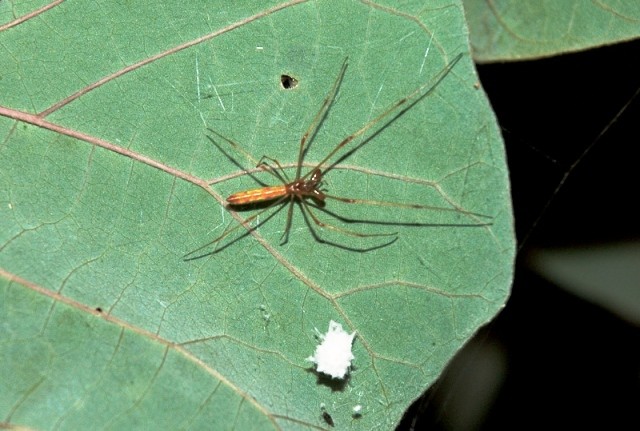 Family: Tetragnathidae Size: 9 -10 mm Habitat: Moist Deciduous forest, among bushes even in urban areas. This is a nocturnal spider but instead of frequenting water it spins its webs among bushes in the jungle. It can be easily distinguished in field by the bright green of its lateral sides and reddish brown on the dorsum of abdomen. The characteristic colouration makes it well camouflaged in the leaves.